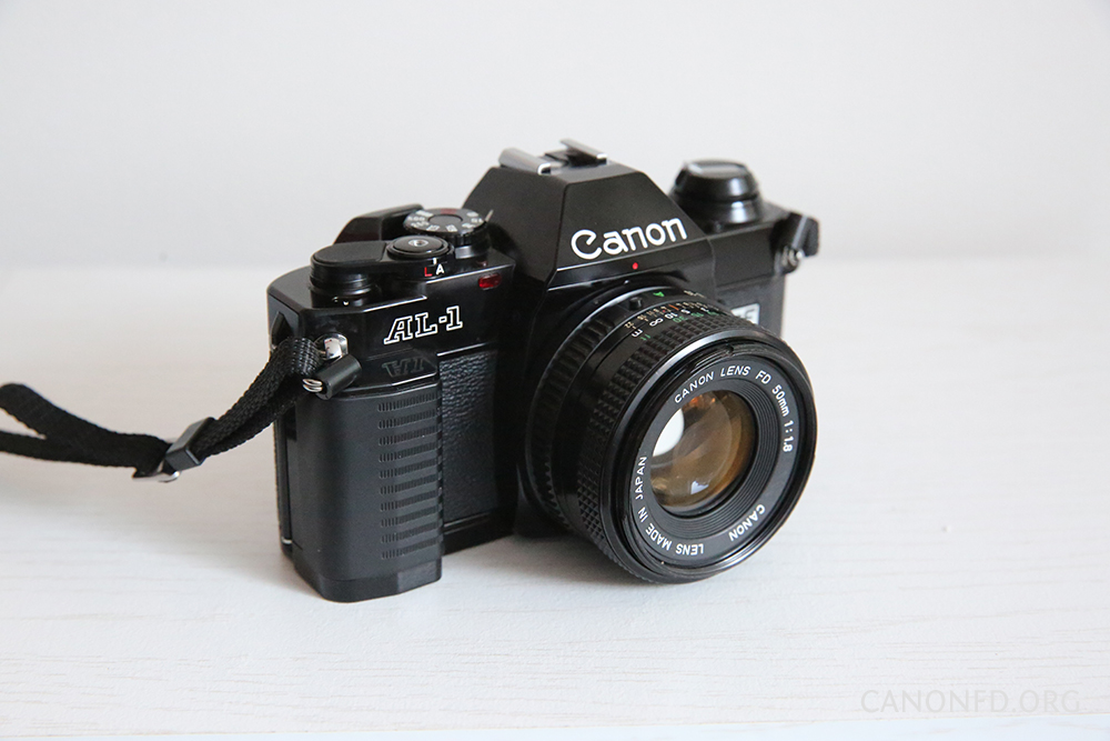 This is a Canon AL-1 film single reflex (SLR) camera.